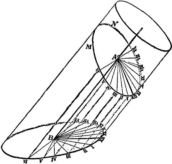 Discussion of sundial construction.